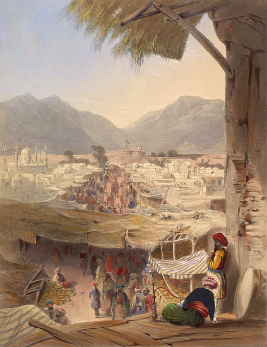 City of Kandahar, its principal bazaar and citadel, taken from the Nakkara Khauna This lithograph is taken from plate 28 of 'Afghaunistan' by Lieutenant James Rattray. The Naqqara Khana, from which this view was composed, was the room where the Royal Band played. It was part of the domed building known as Charsu ('Fourways'), which stood in the centre of Kandahar and was the meeting place of the city's four principal roads. At the Charsu were the best shops for arms, writing materials and books. Official proclamations were also made there and public hangings were carried out. The mosque on the left held a relic said to be the Prophet Mohammed's shirt. This was guarded with great care by the British since a Durrani chief had almost stolen it with a view to inciting a holy war against the 'Feringhees' (foreigners). Rattray wrote: "Nothing can surpass the wild, stunning and unearthly music of His Majesty's band", whose reverberations proclaimed for miles around the entry and exit of Afghan princes. The band also served to toll the divisions of the day: playing at daybreak, midday and midnight.